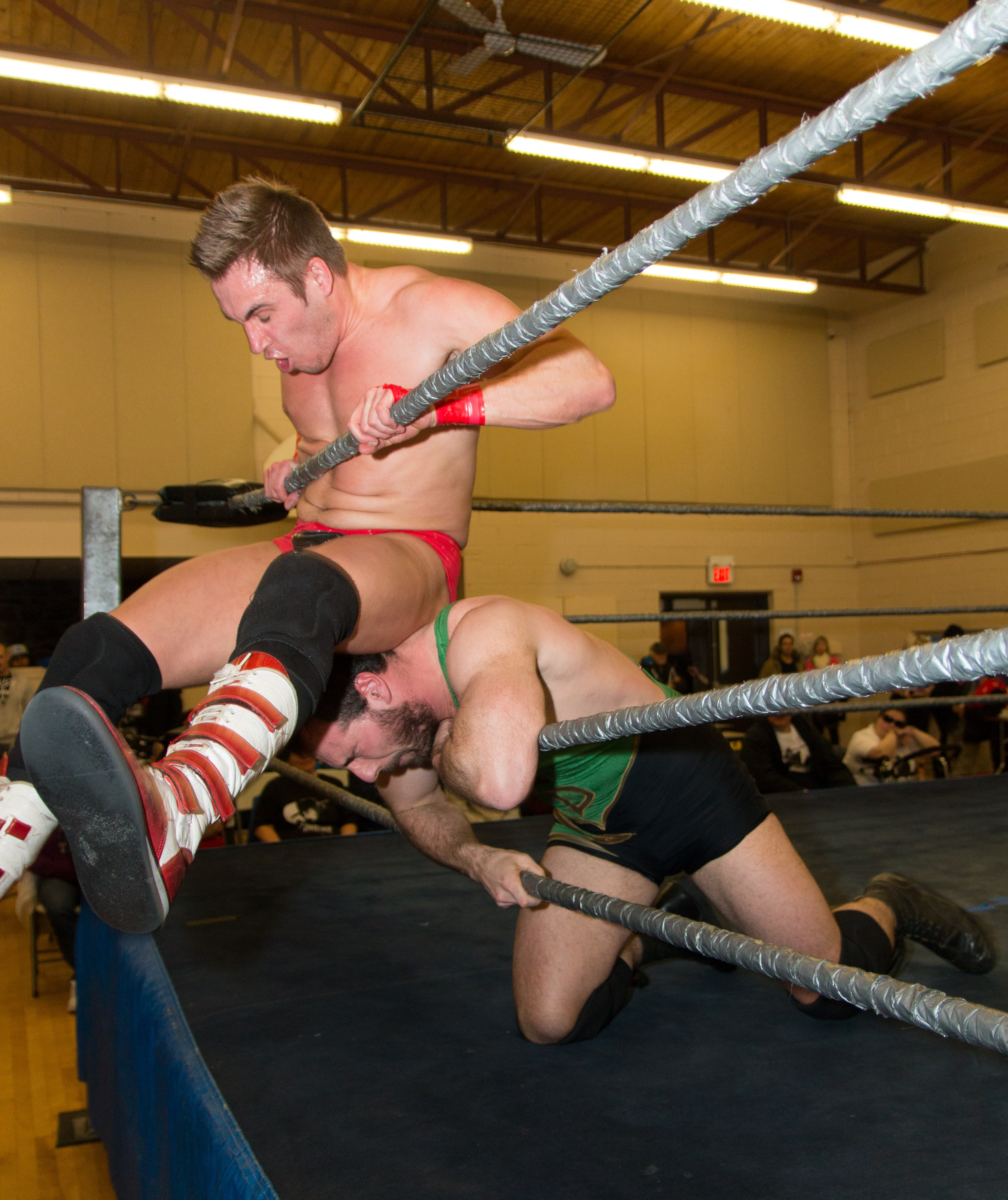 Wrestler Tyler Tirva (in red) doing a leapfrog body guillotine on Andrew Davis